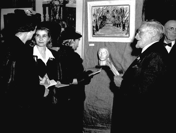 New Orleans, 1941. WPA Art show. "Art connoisseur and antique dealer is Dr. Isaac Cline, once a star forecaster for the U.S. Weather Bureau and recognized internationally as an authority on tropical hurricanes. He is shown here at the central exhibition with (left to right) Mrs. H.H. Schutz, Miss Willie Reid, and Mrs. Alice Barton."